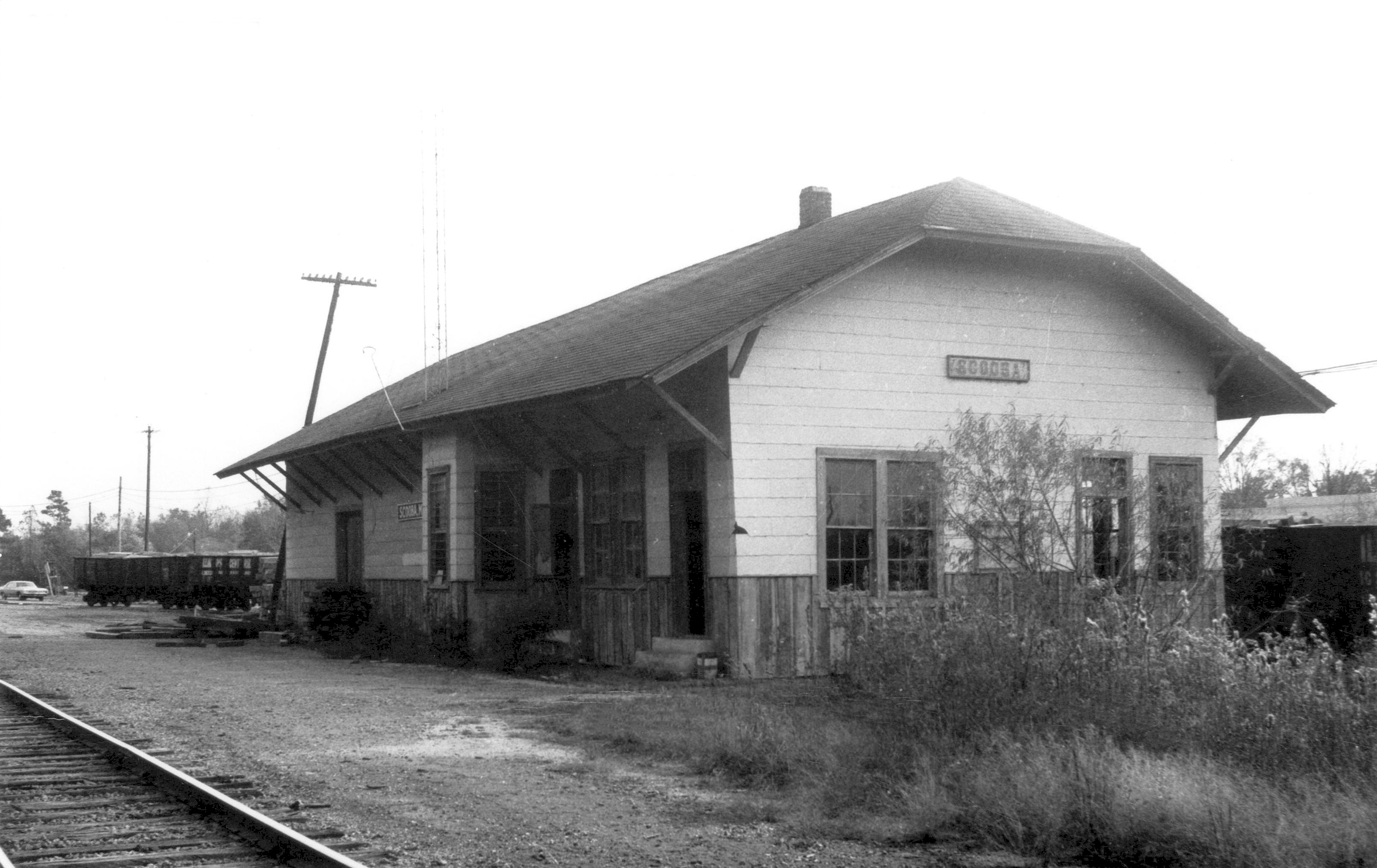 Collection: Railroad Depot Postcard Collection Call number: PI/1987.0009 System ID: 77431 Gulf, Mobile and Ohio Railroad Depot, Scooba, Miss., November 1975. Please see our profile page for information on ordering. Scanned as tiff in 2008/11/13 by MDAH. Credit: Courtesy of the Mississippi Department of Archives and History